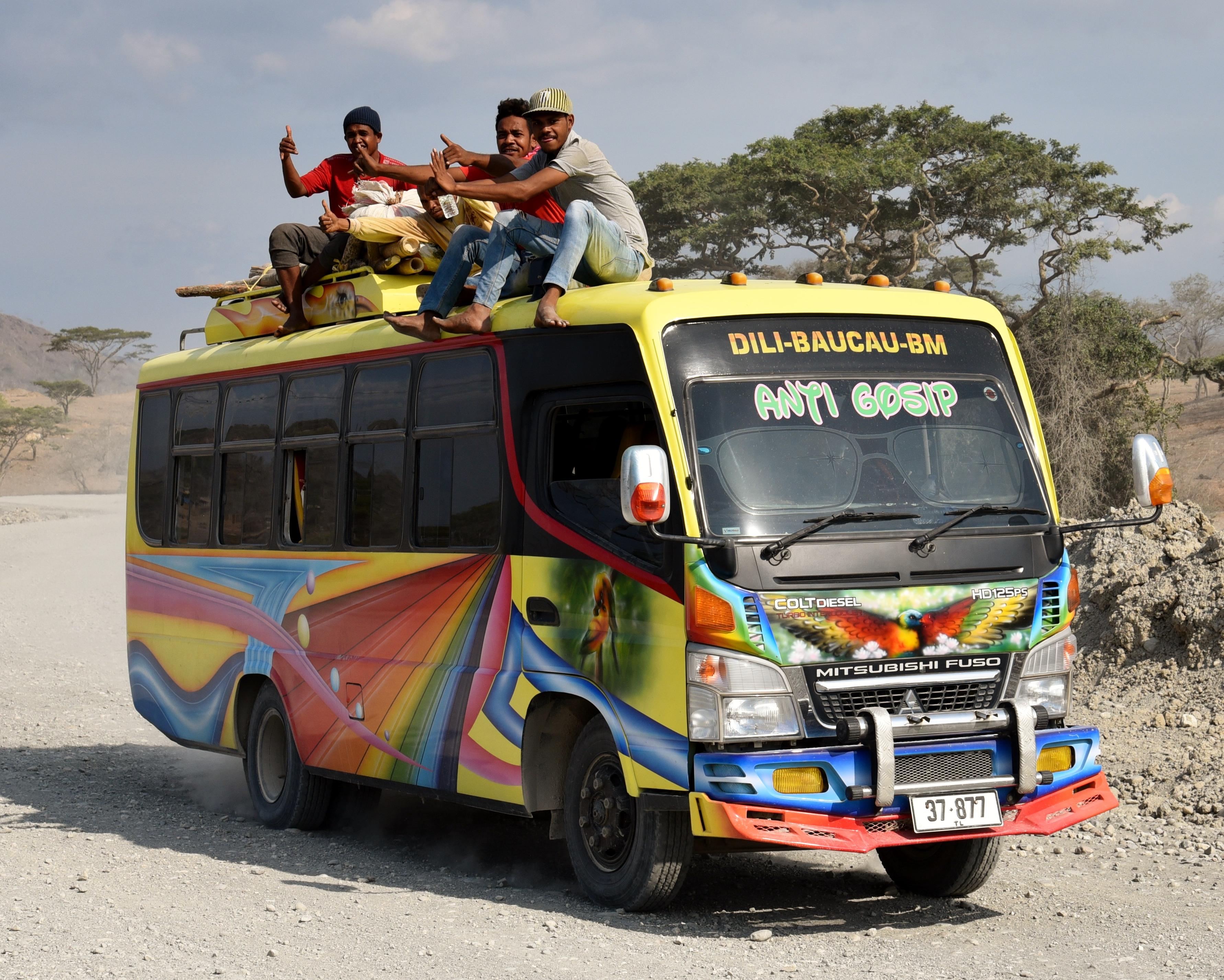 A Mitsubishi Fuso bus operating a Baucau–Dili service on National Highway 1, East Timor. At the time the photo was taken, the Dili to Baucau Highway Project was in full swing, hence the unsurfaced road and associated cloud of dust.